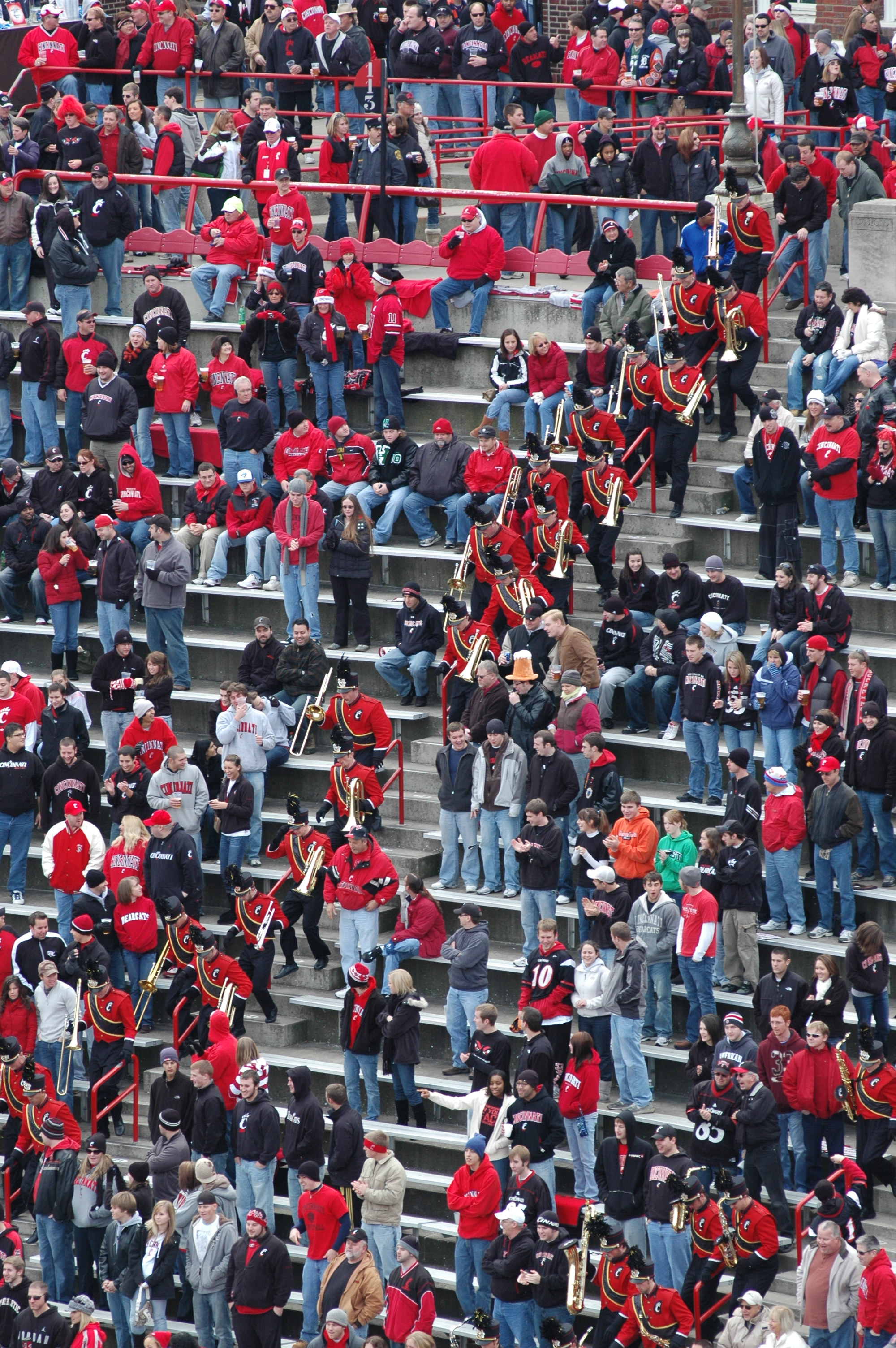 The UC Band's signature Charge down Nippert Stadium's steps